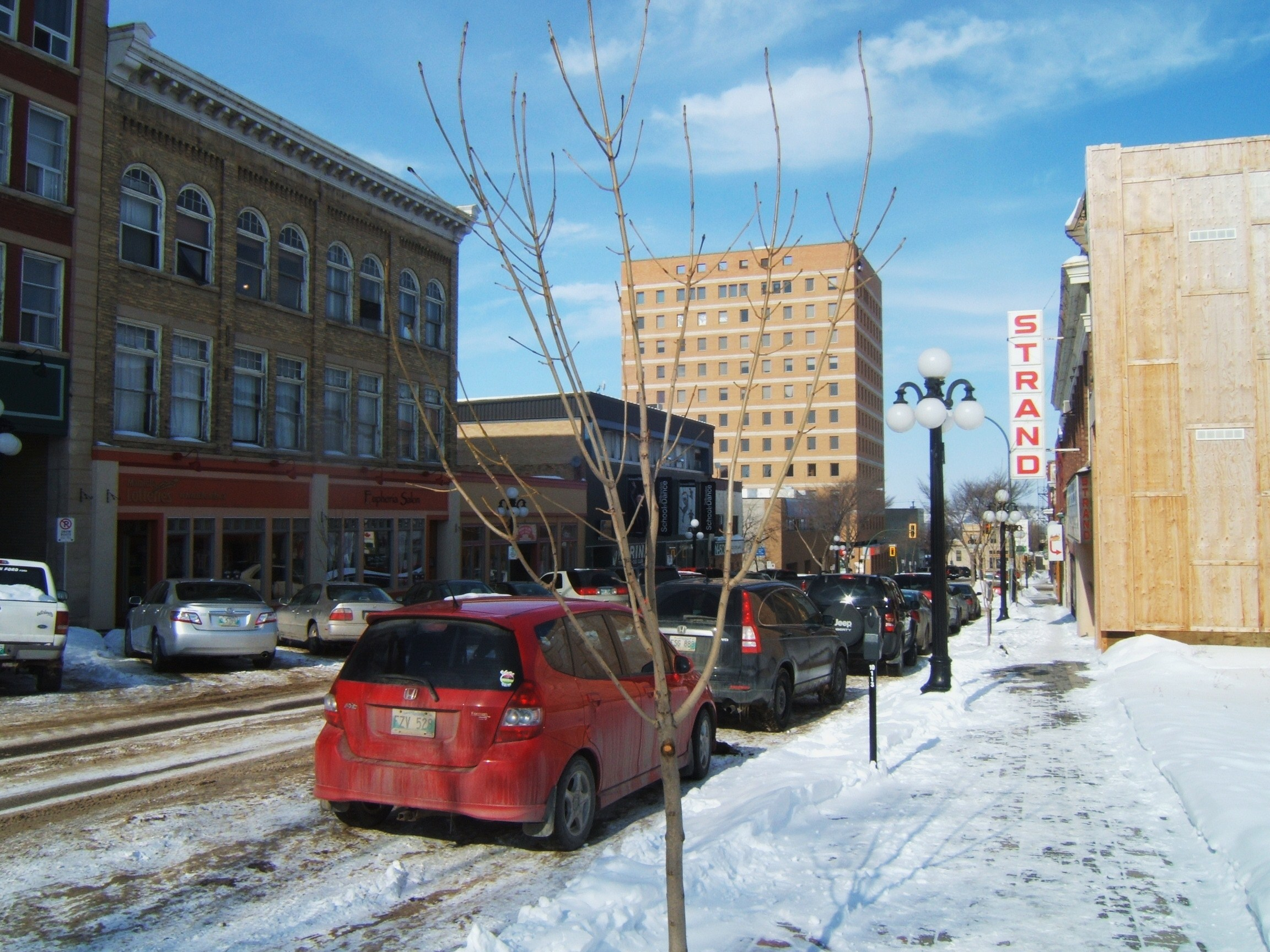 Downtown Brandon Manitoba. Taken on Feb 24th, 2013.